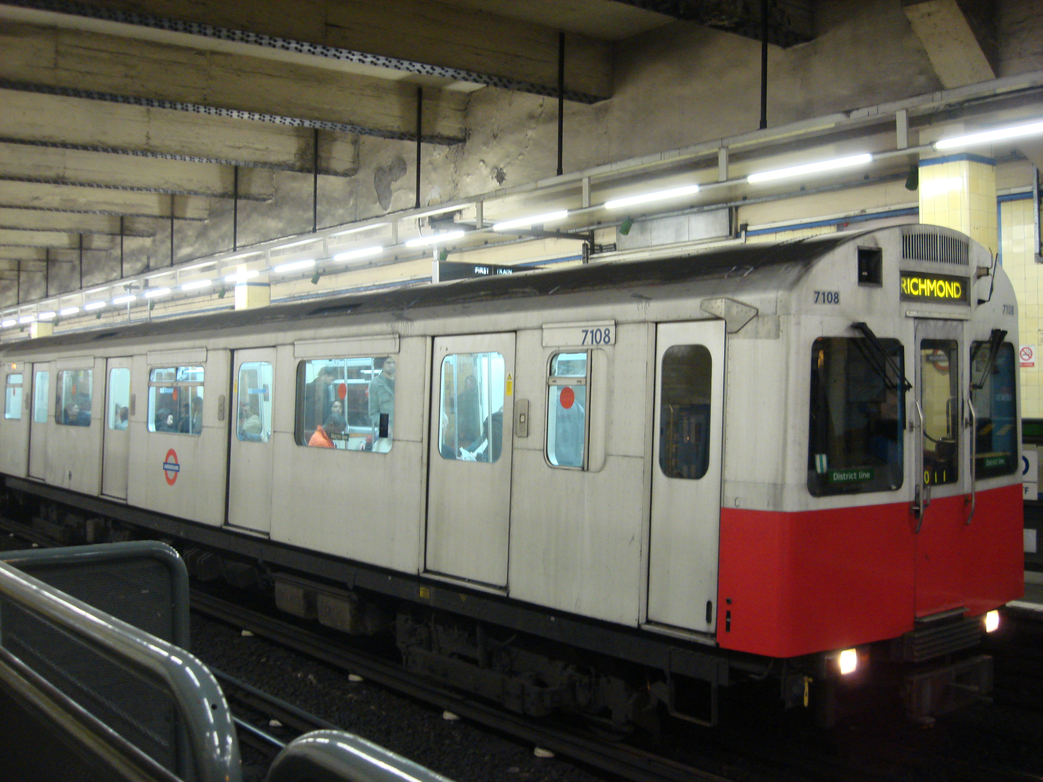 London Underground D78 stock at Aldgate east